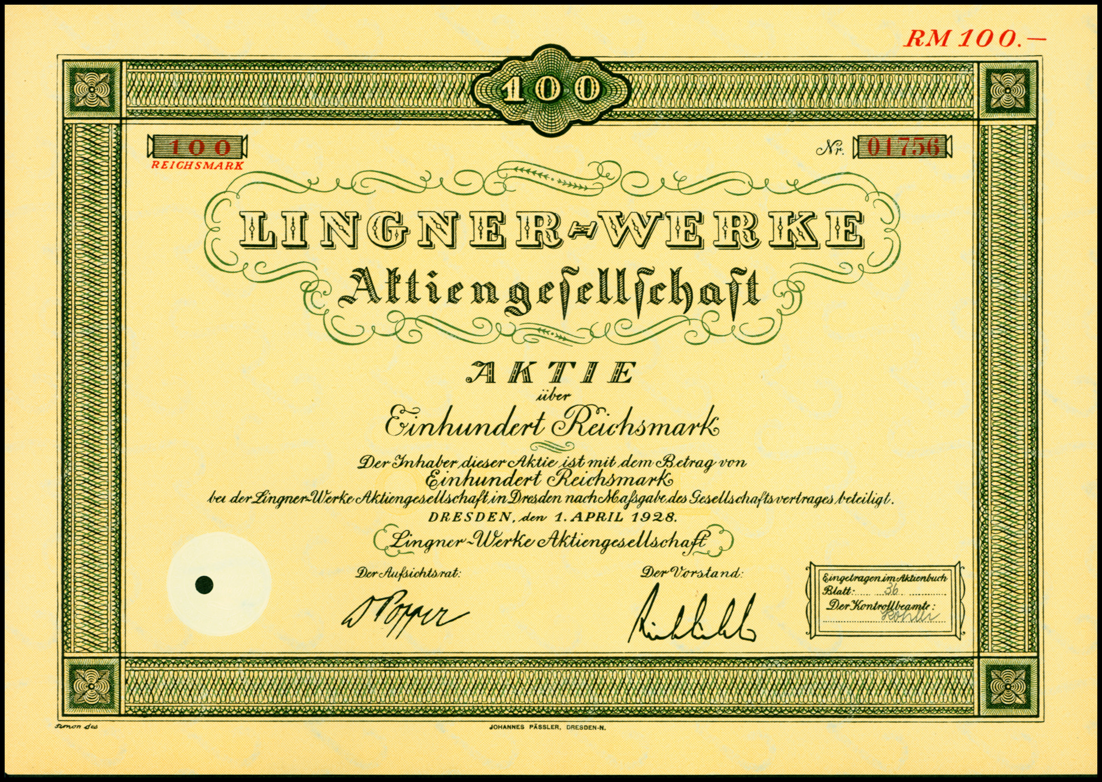 Share of the Lingner-Werke AG, issued 1. April 1928